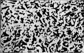 Photomicrograph of gun steel